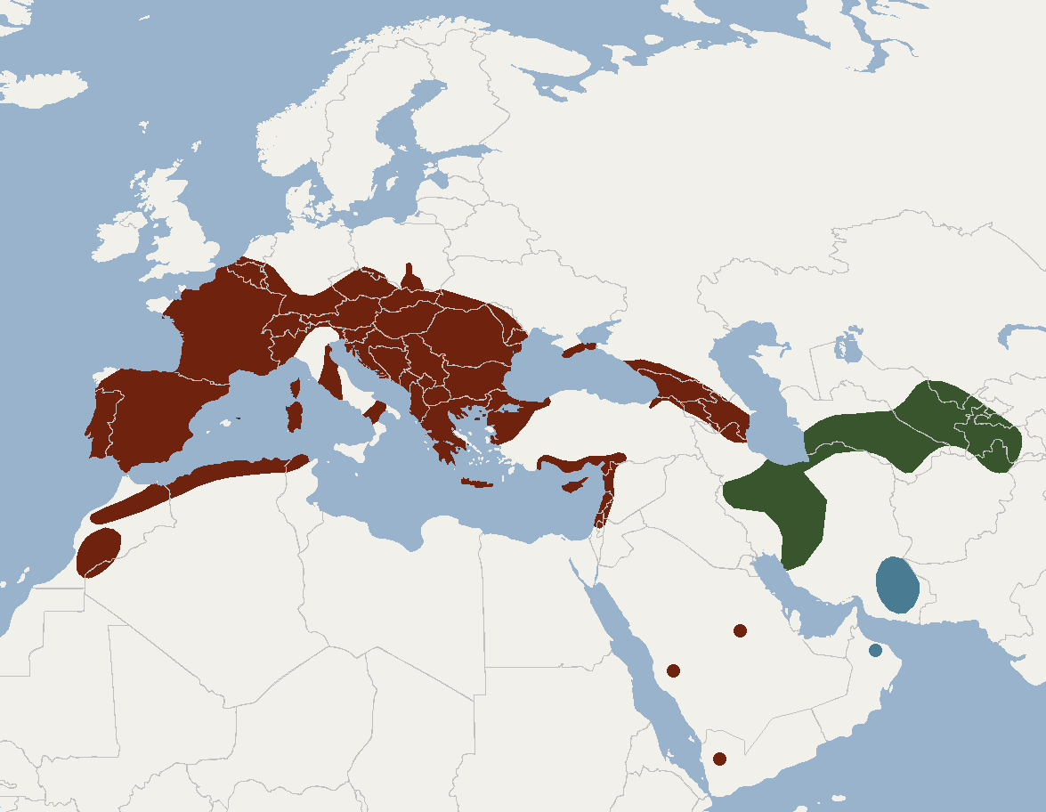 According to IUCNRedlist and specimen museums. subspecies range: M.e.emarginatus in brown, M.e.turcomanicus in green and M.e.desertorum in blue